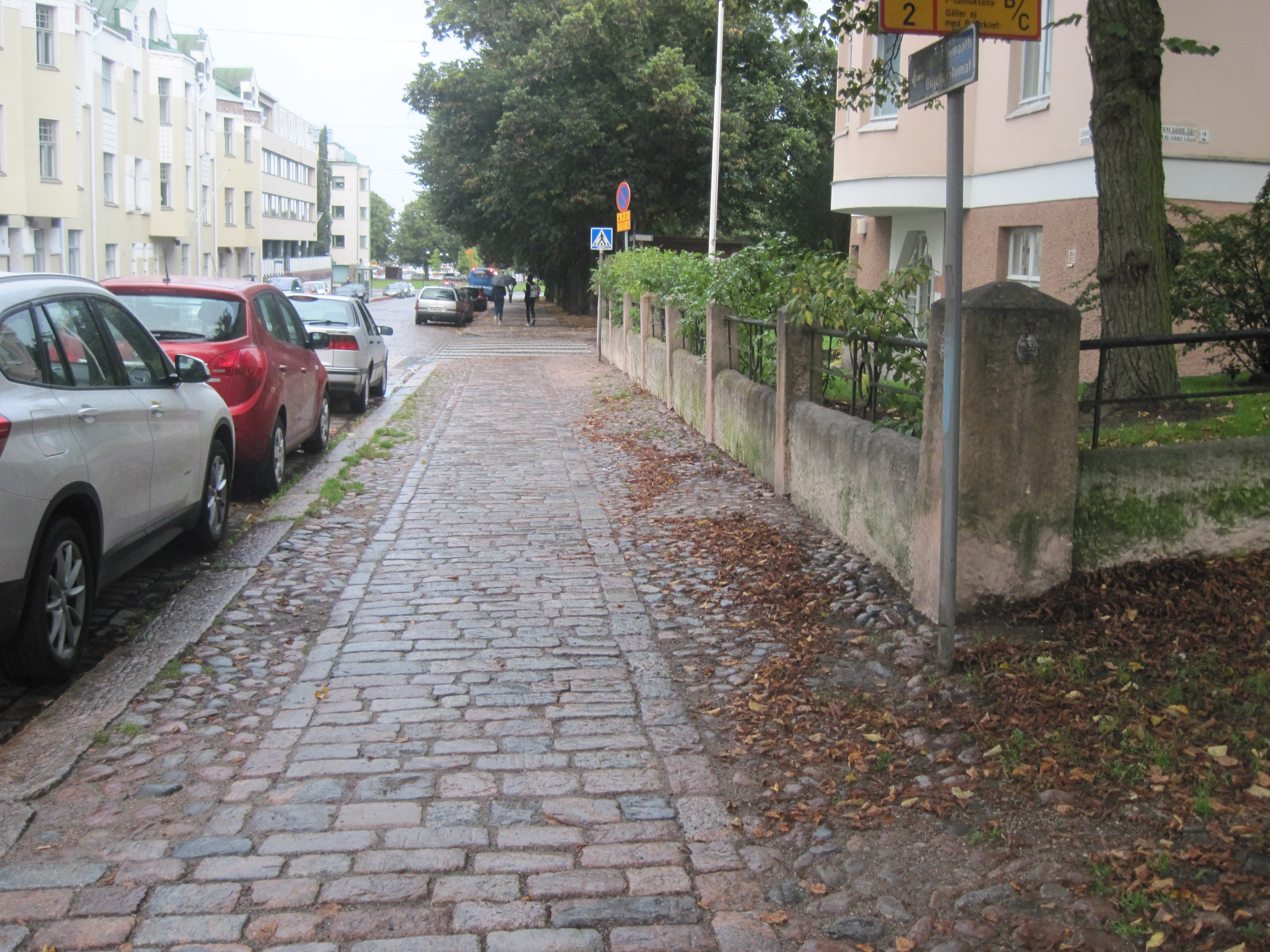 Laivurinkatu in Helsinki, as seen southward from the corner of Pietarinkatu